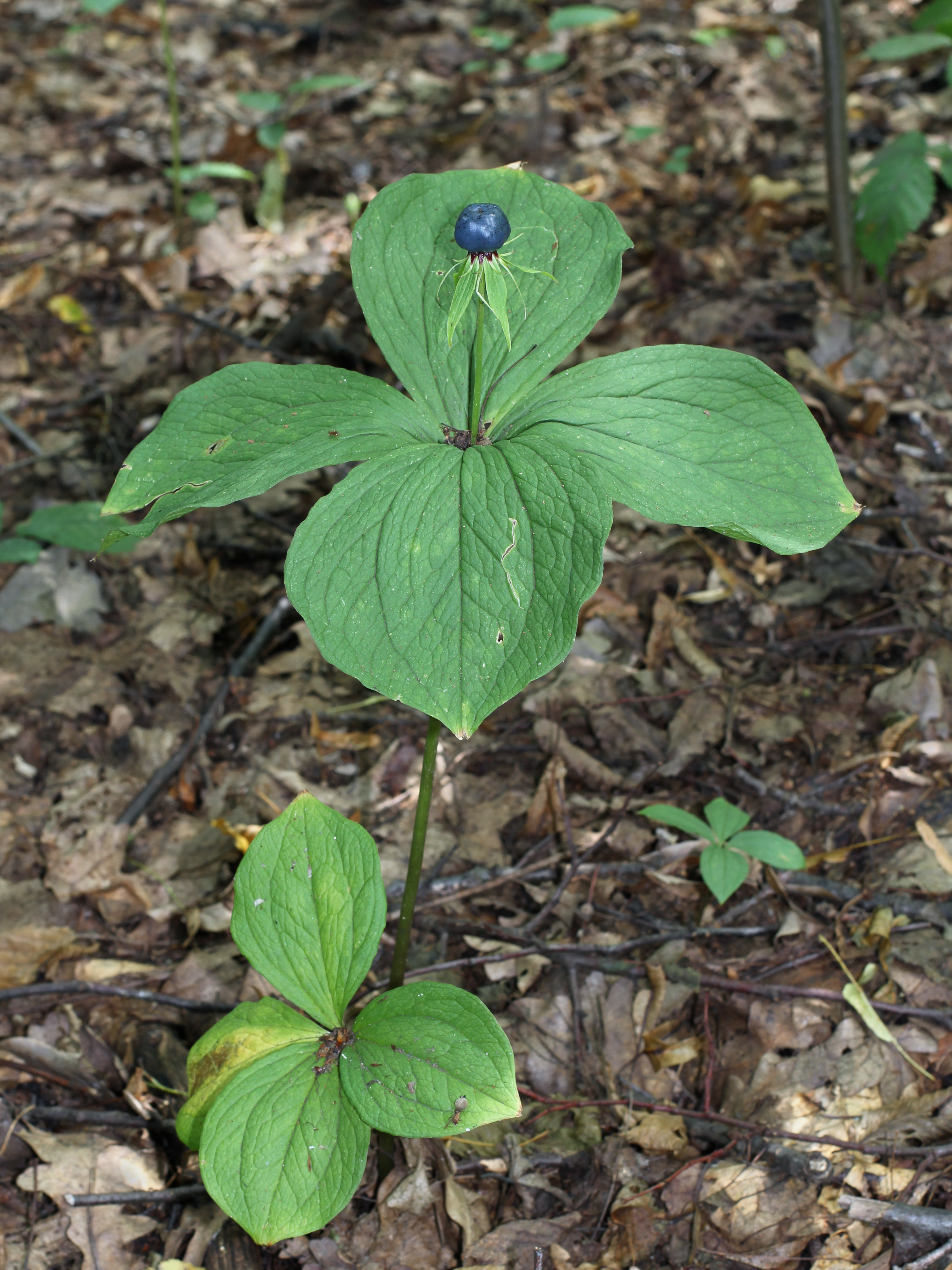 Herb Paris, True-lover's Knot. Ukraine.